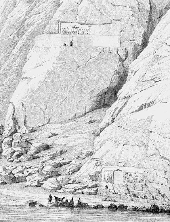 Behistun rock reliefs of Darius Ist (Top), and Mithridate II (bottom). Iran